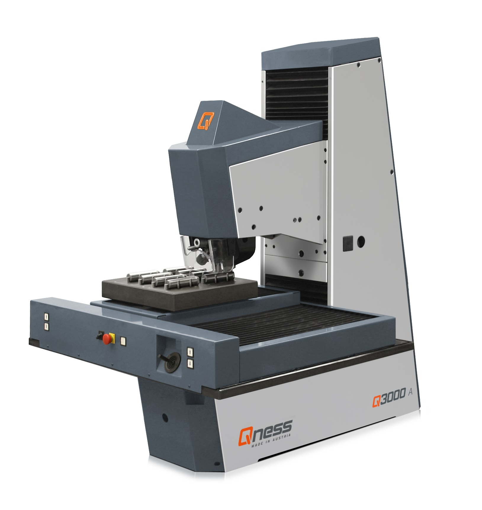 Hardness tester